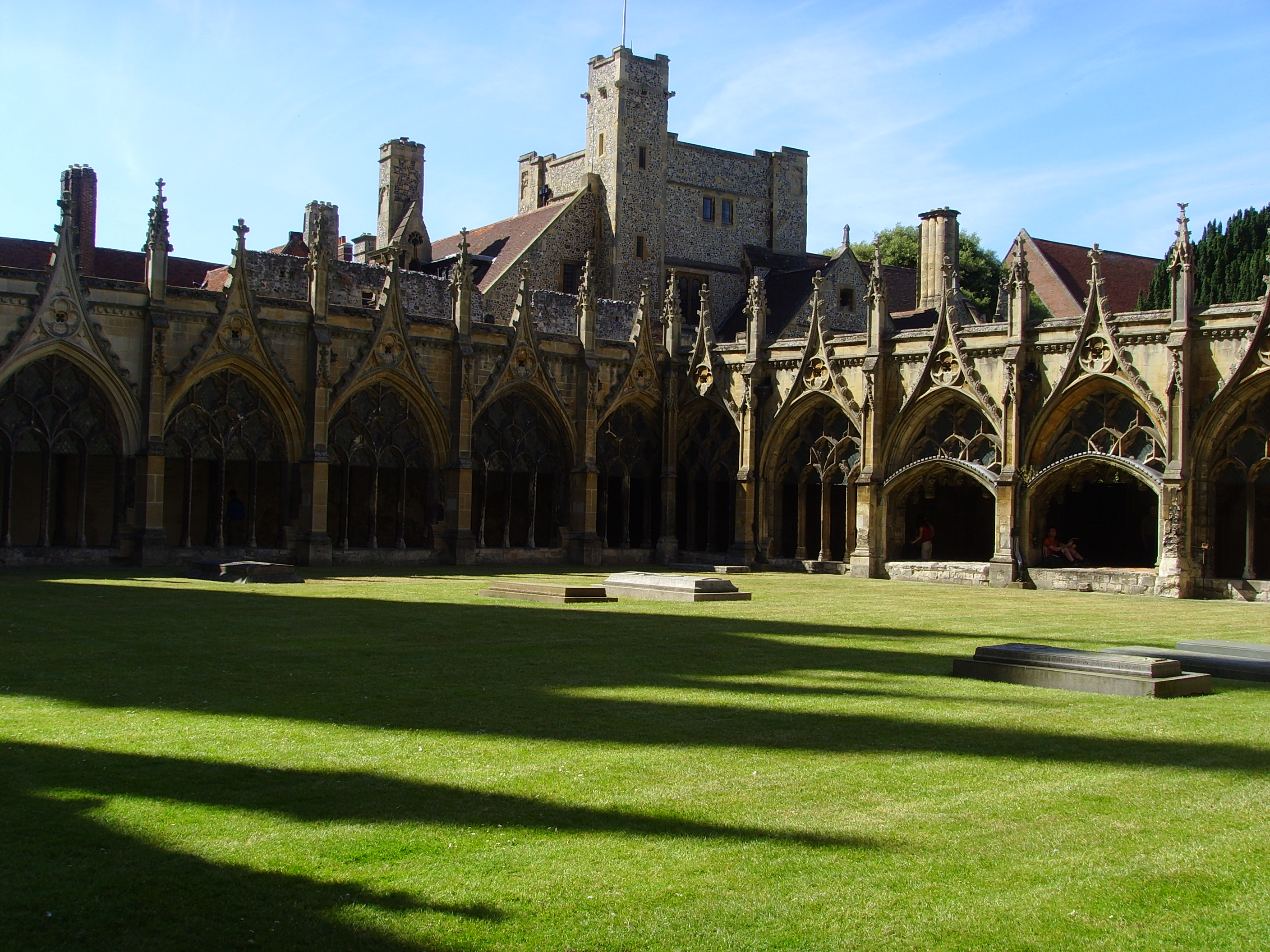 Abbey next to Canterbury Cathedral